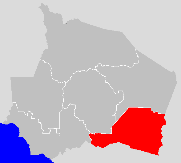 district map of Negeri Sembilan , Malaysia (using [1] as reference)